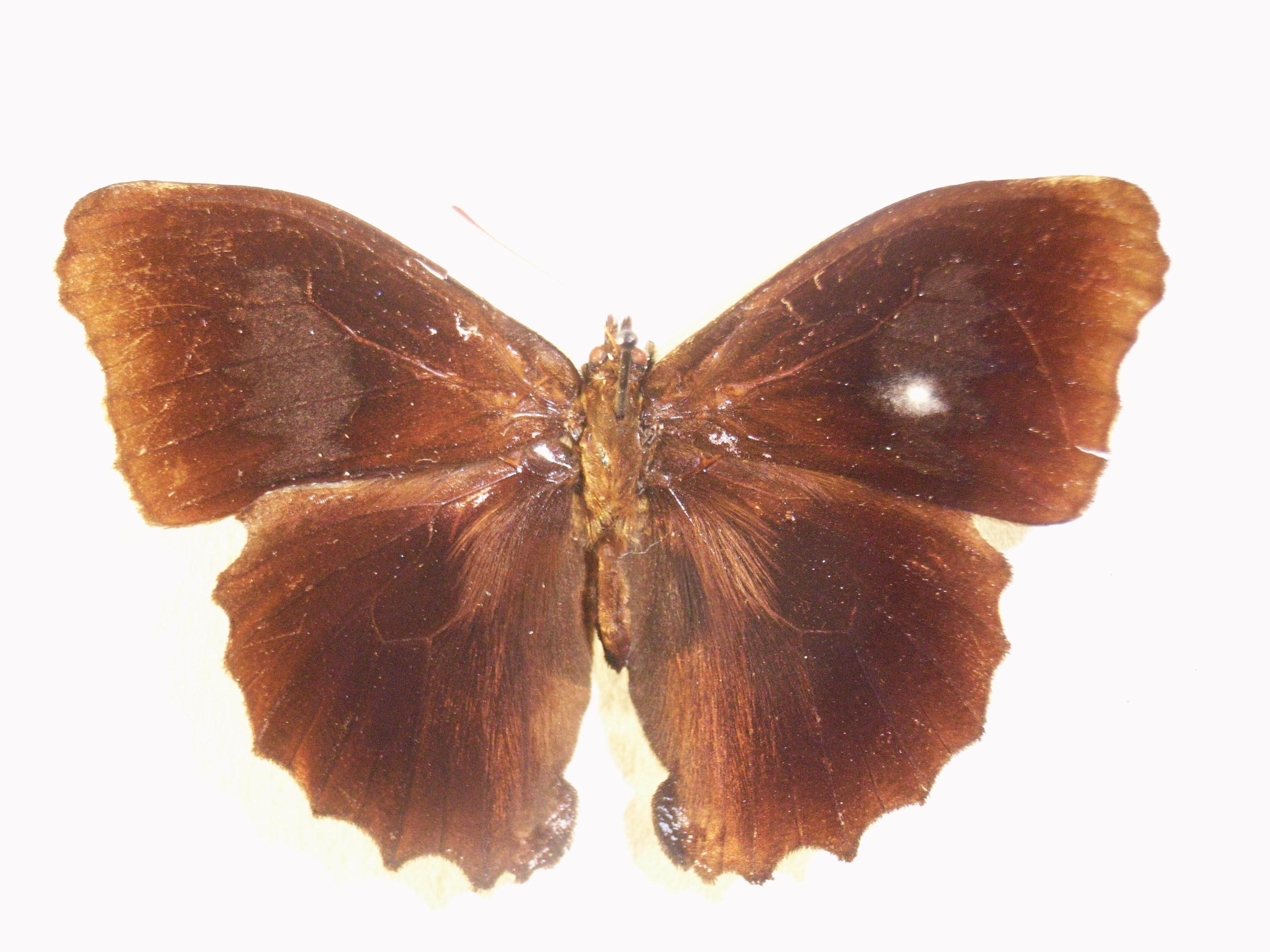 Steroma superba:Satyrinae:Nymphalidae